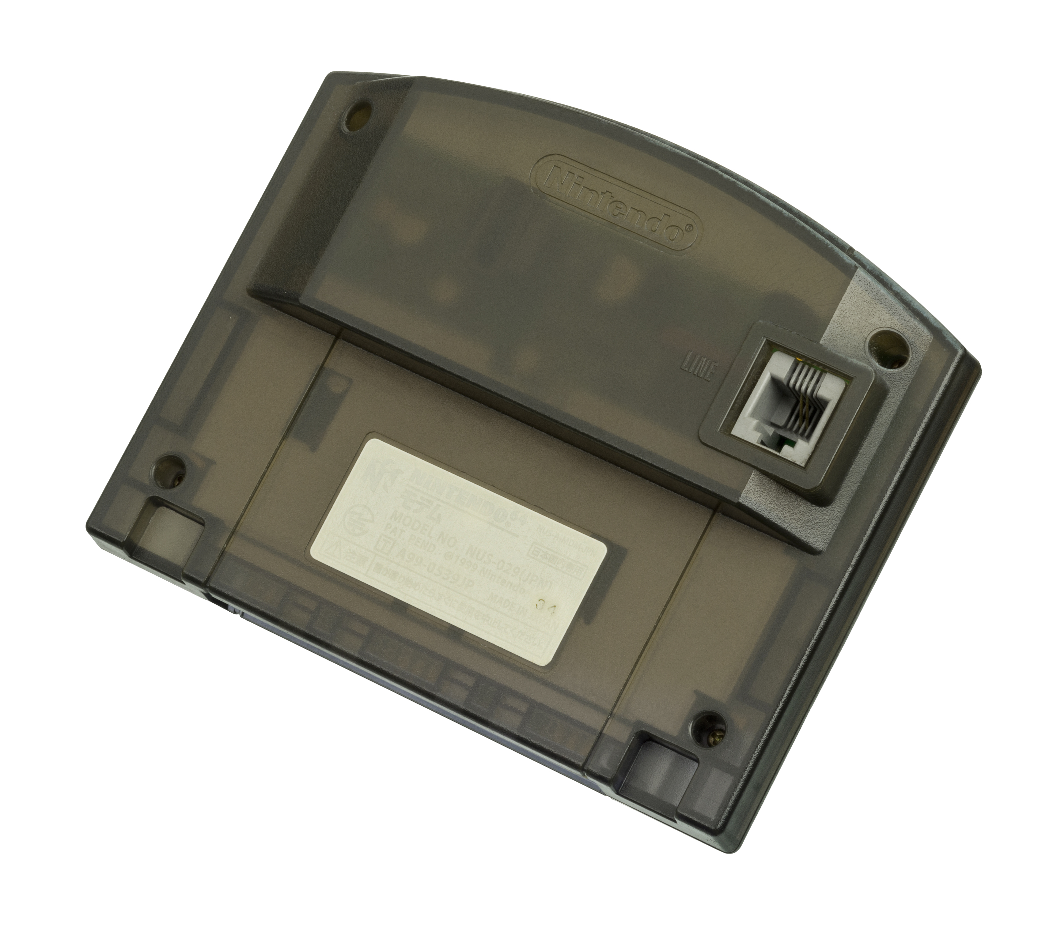 The back of the dial-up modem cartridge for the Nintendo 64 video game console. Used in conjunction with the 64DD add-on and the Randnet service, a very brief service that lasted a little over a year from 1999 to 2001.